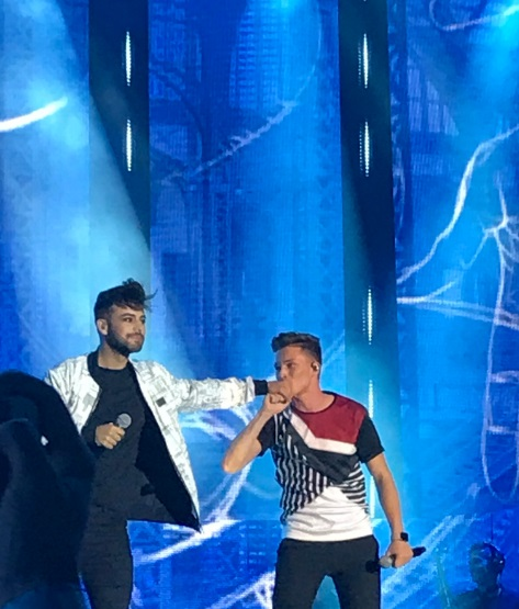 Los cantantes españoles Agoney Hernández Morales y Raoul Vázquez García en el Concierto de Valencia tomados de la mano dando un discurso después de Cantar Manos Vacias, Raoul le da un beso en la mano a su compañero 15 de junio de 2018. Gira de conciertos de Operación Triunfo España 2017